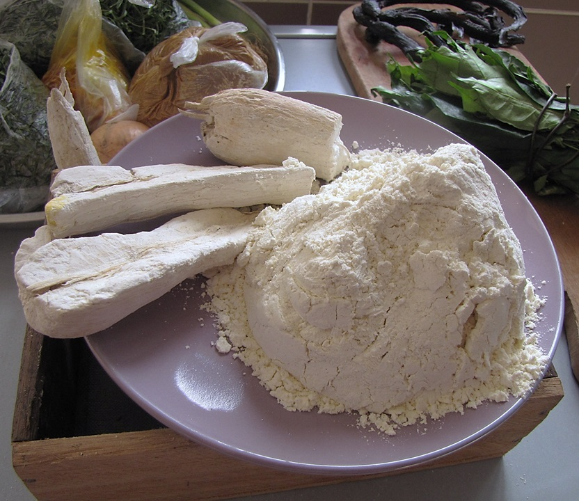 In Africa, to make edible, cassava tubers are dug up, rinsed, peeled and submerged for three days in free-flowing river water to leech out toxins. After collecting from the river, the cassava pieces are thoroughly sun-dried. The lightweight dry pieces are then ground into a flour. Here shown the dried cassava tuber pieces after river soaking and sun-drying and the flour made from them. Also in this photo, as purchased in the market, a bundle of fresh Gnetem africanum leaves,sachets of finely chopped Gnetum africanum, smoked dried eels, and peanut butter for a traditional west and central African sauce. A thick cassava porridge made from this cassava flour will accompany the sauce. Cassava is called 'manioc' in French. Congo.